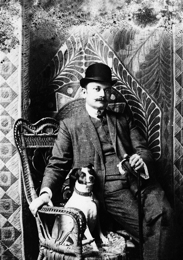 The Greek painter Konstantinos Parthenis (1878-1967) and his dog Rubens